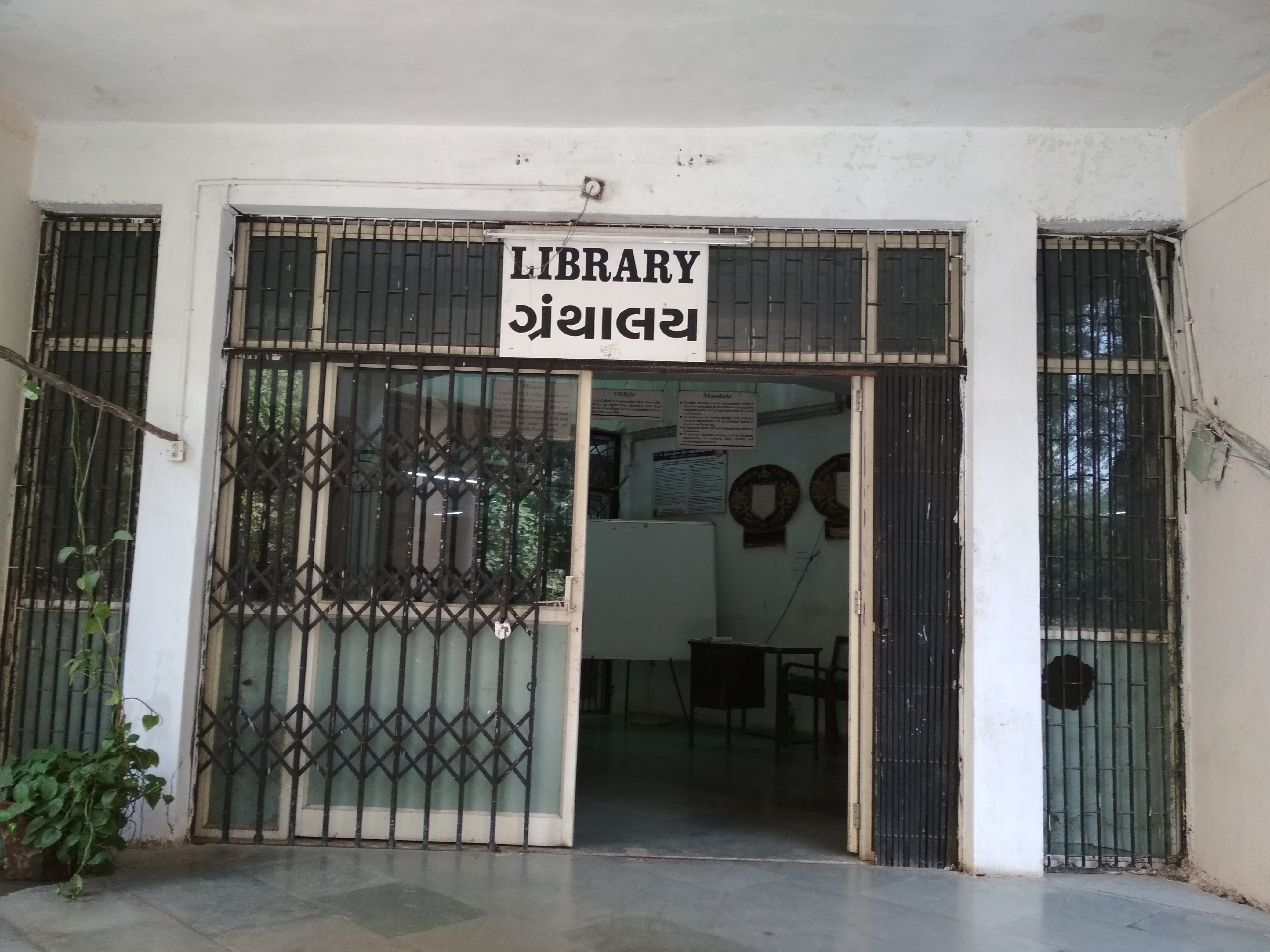 Library of L. D. College of Engineering, front view. This image helps readers to set a clear picture about library of LDCE.